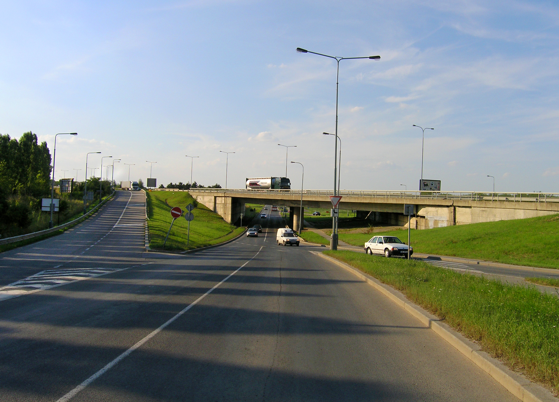 Underpass of Ďáblická street under Expressway R8 in Ďáblice, Prague